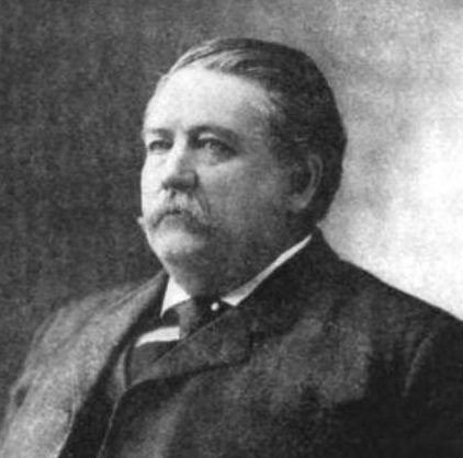 Frank Plumley, Vermont Congressman